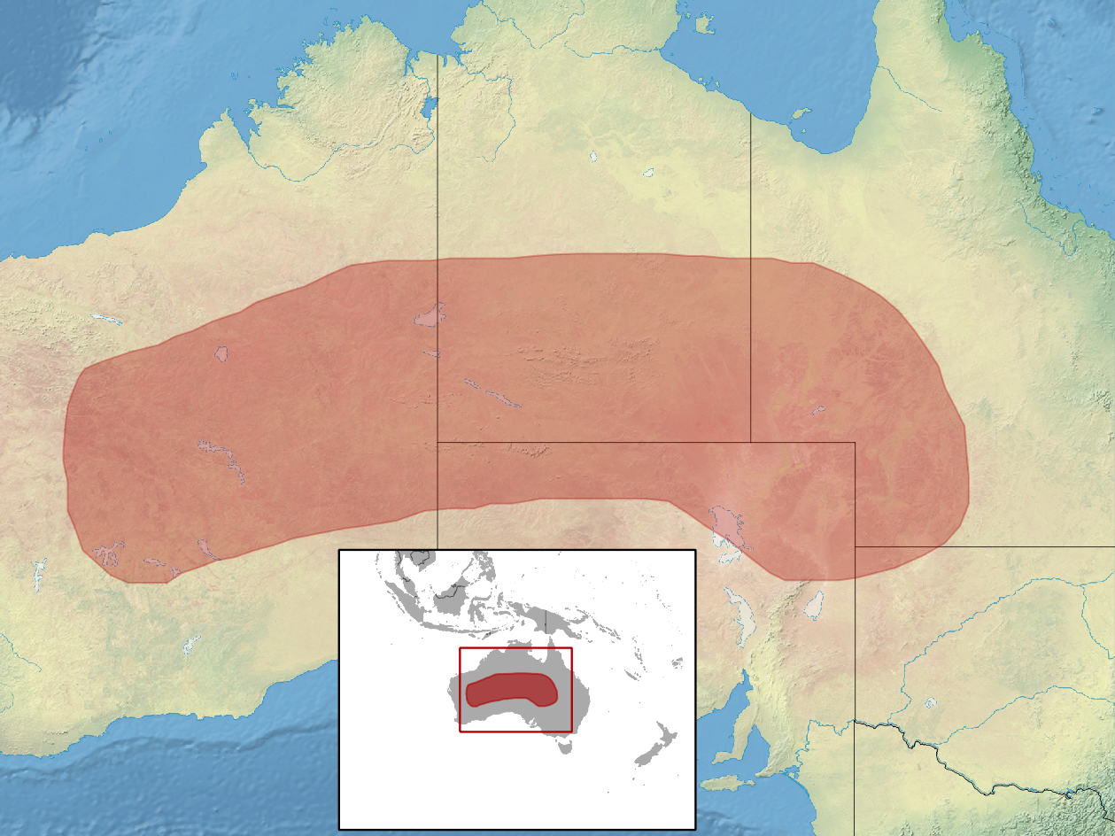 geographic distribution of Ctenotus leonhardii